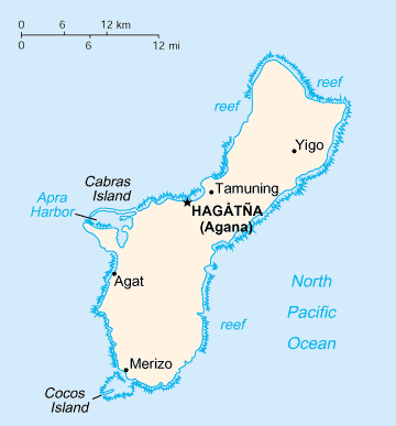 A map of Guam, showing major towns.